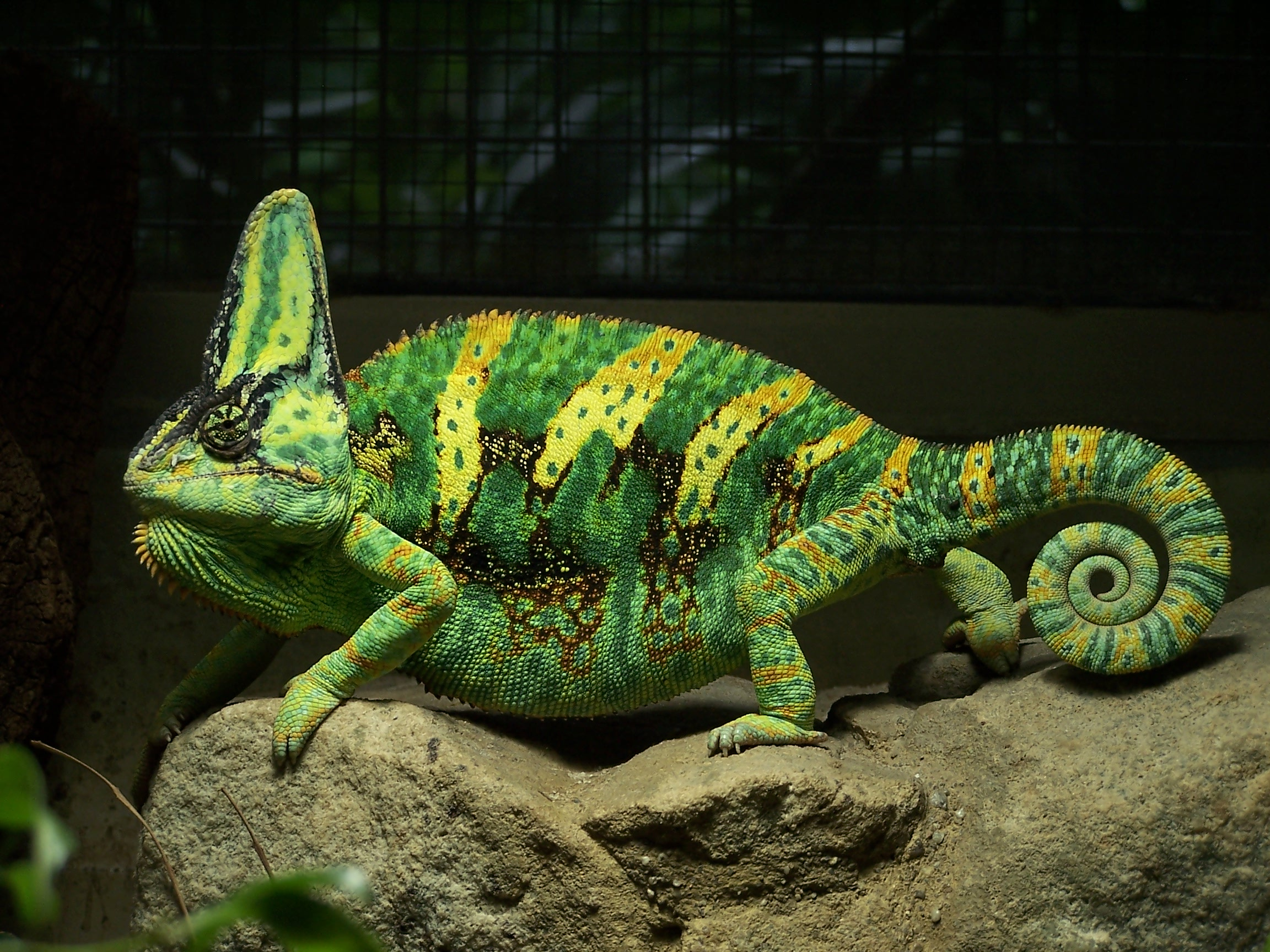 Photo of a Yemen Chameleon / Veiled Chamelon in the Berlin Zoo.